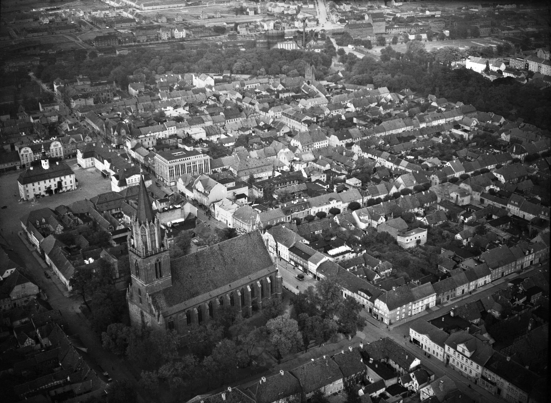 Aerial view of intact old town of Neubrandenburg, Mecklenburg-Vorpommern, Germany. Historical photo taken around 1943.